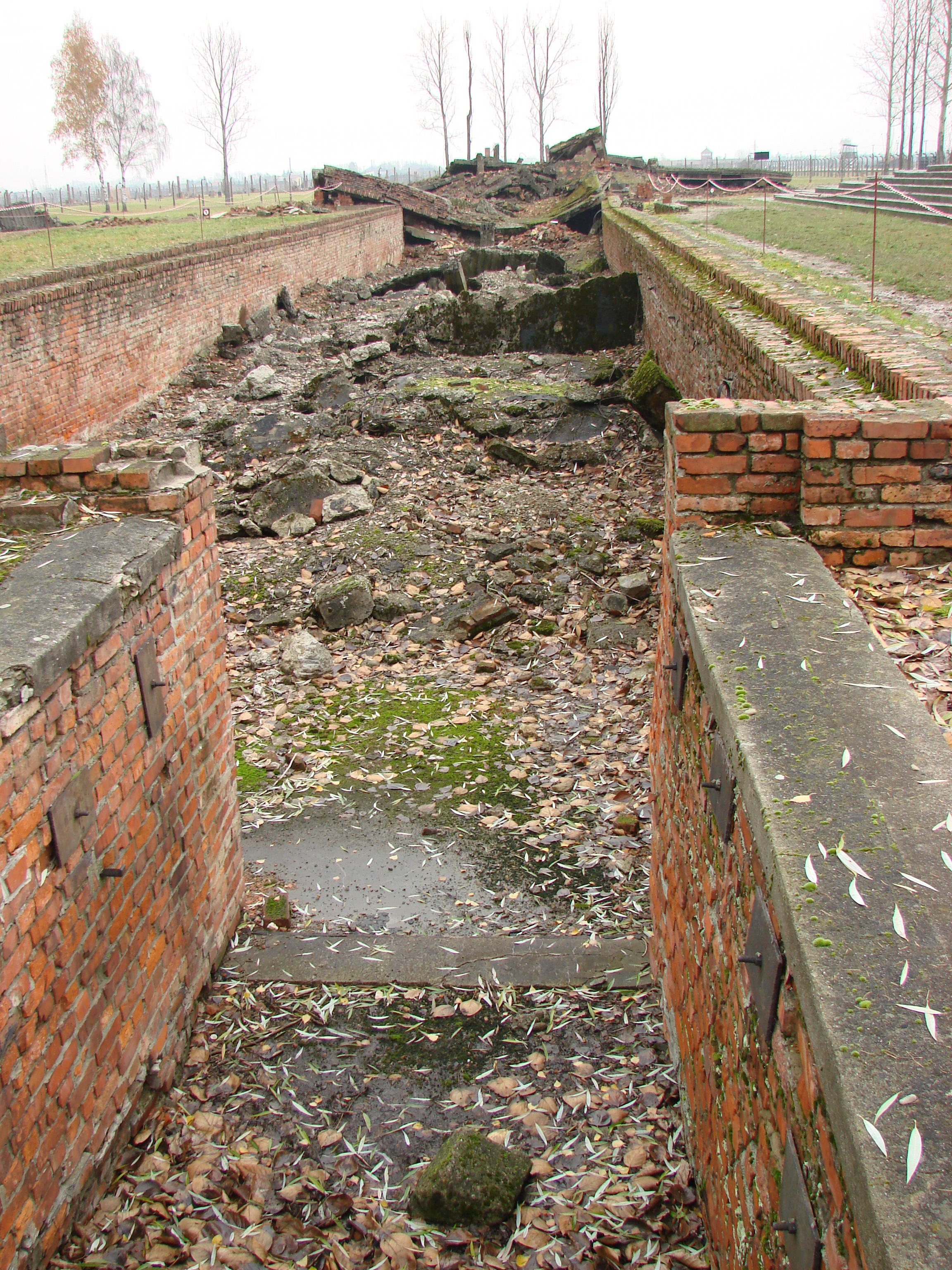 Auschwitz II-Birkenau - Death Camp - Ruins of Crematorium III - Oswiecim - Poland - 01